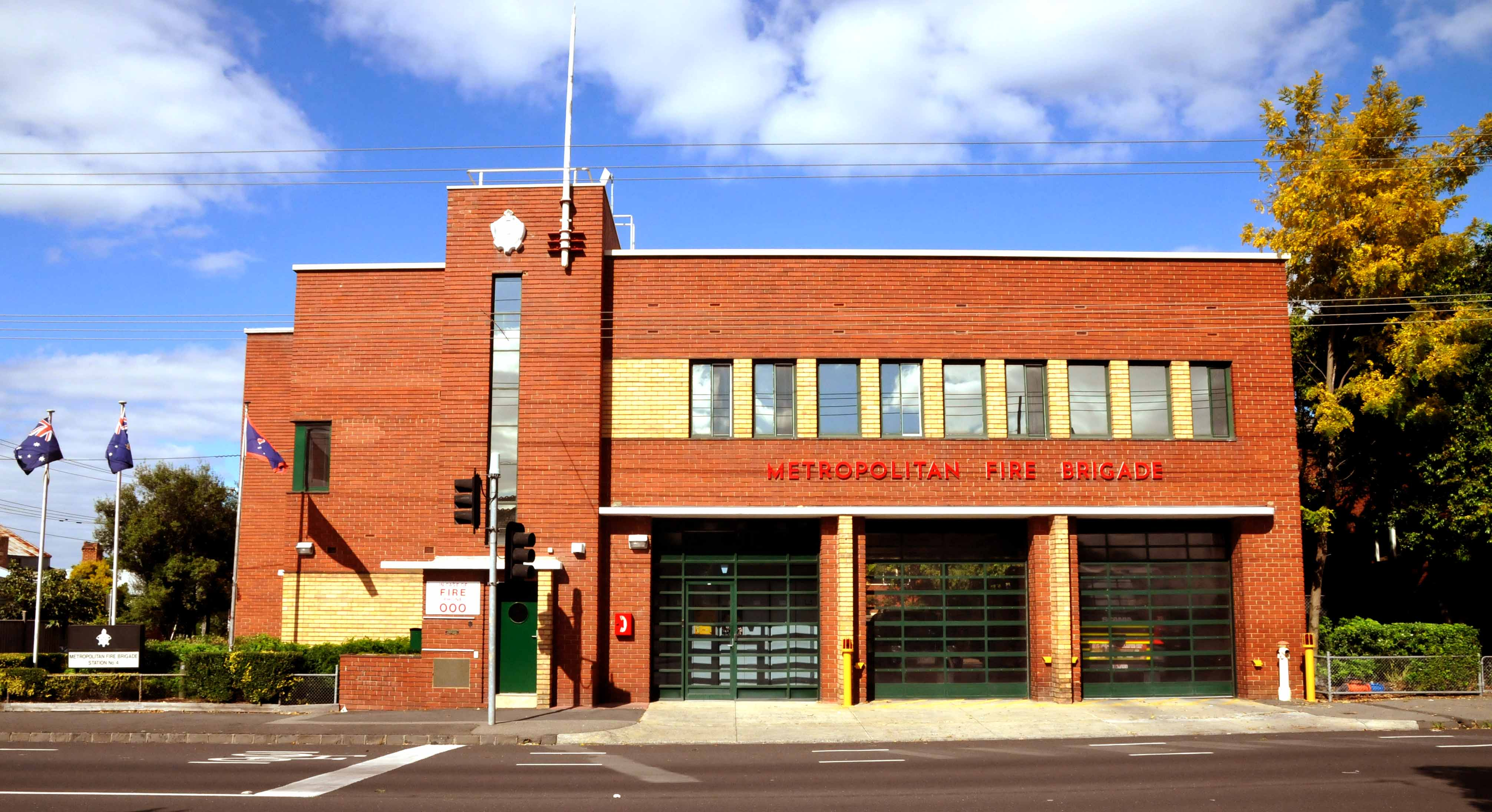 Brunswick Fire Station - North Elevation